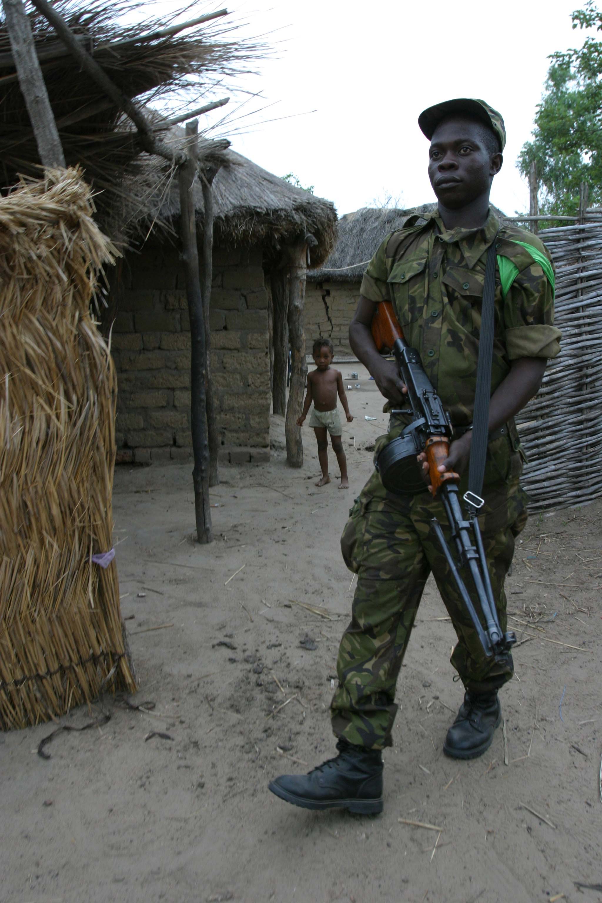 An armed soldier from the national Central African army is patrolling the streets of Birao, during a joint military operation.